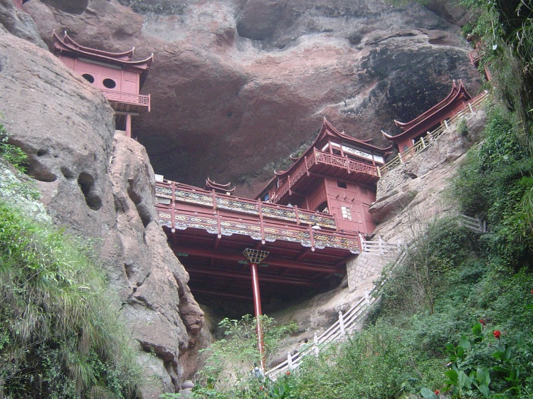 the Ganlu Temple on Taining county, Fujian province, China. The temple was build on 1146, Song Dynasty.